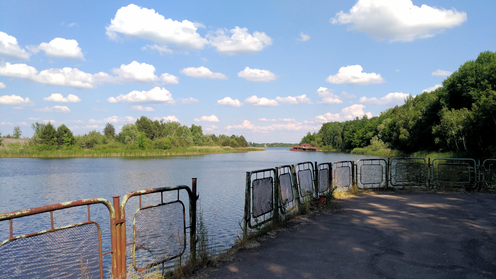 Pripyat in June 2019: River terminal